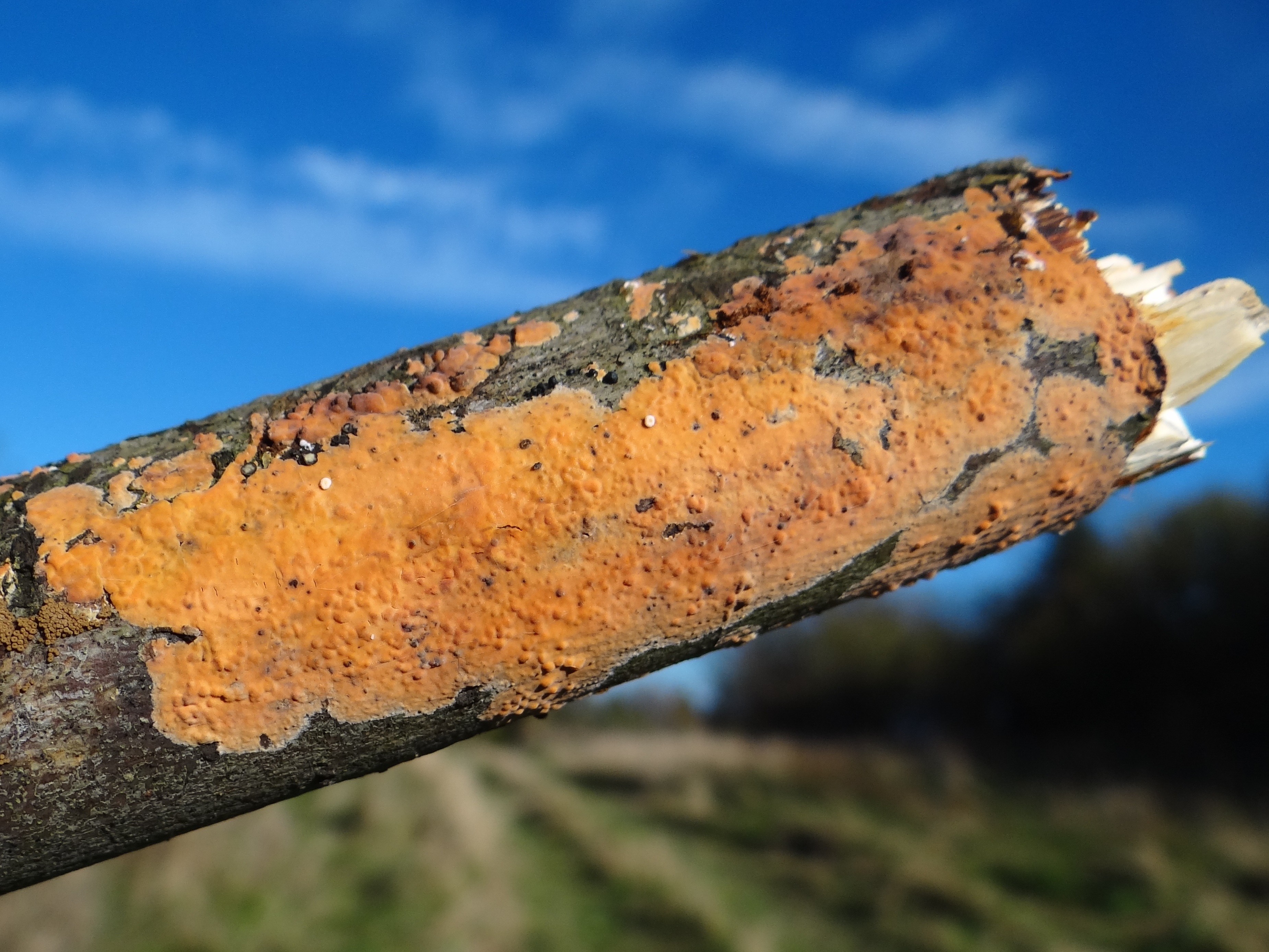 Peniophora incarnata (location: Poland)